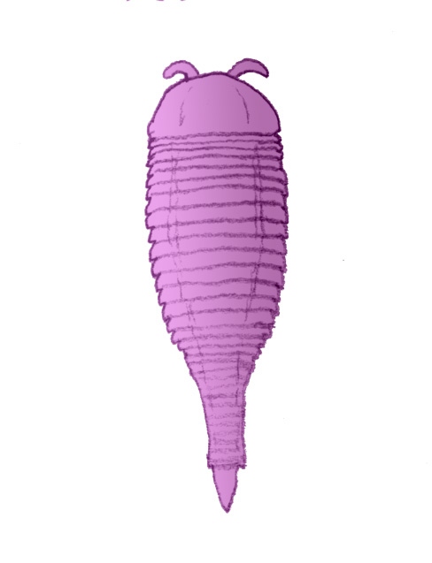 Reconstruction of Fuxianhuia, an extinct arthropod